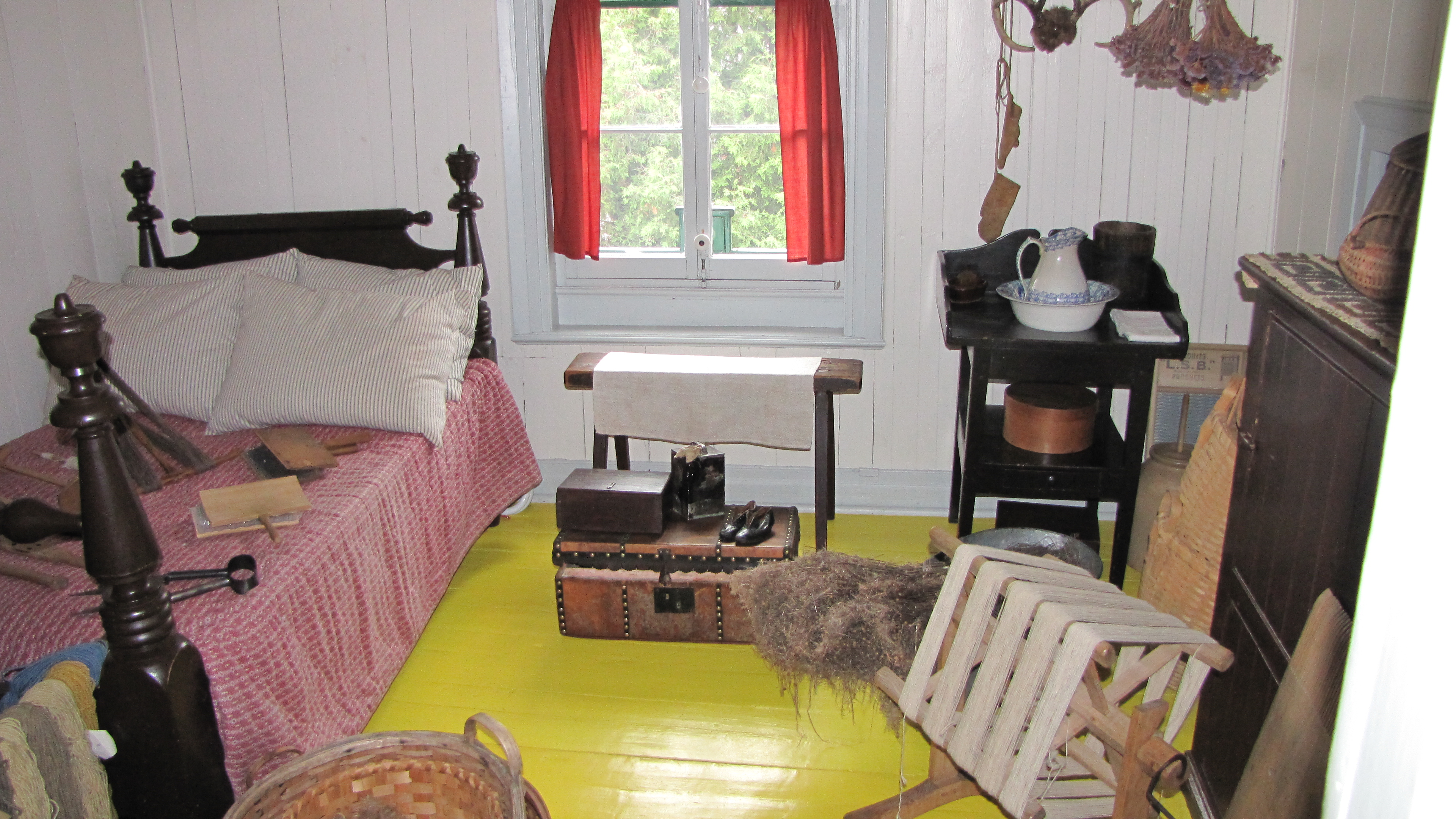 Bedroom in the house, Saint-Lin, Canada East (today called Saint-Lin-Laurentides, Quebec)